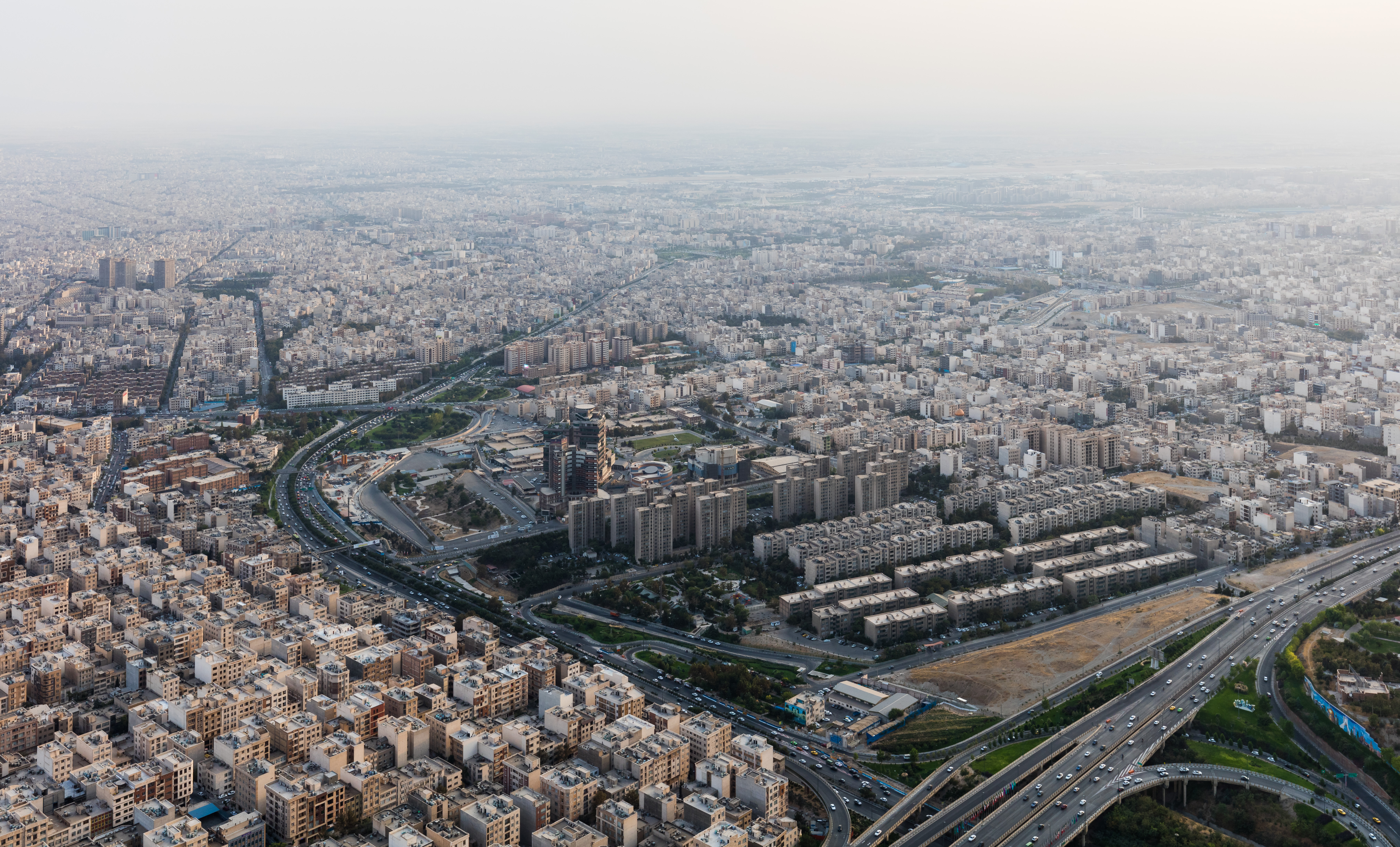 View of Tehran from Milad Tower, Iran